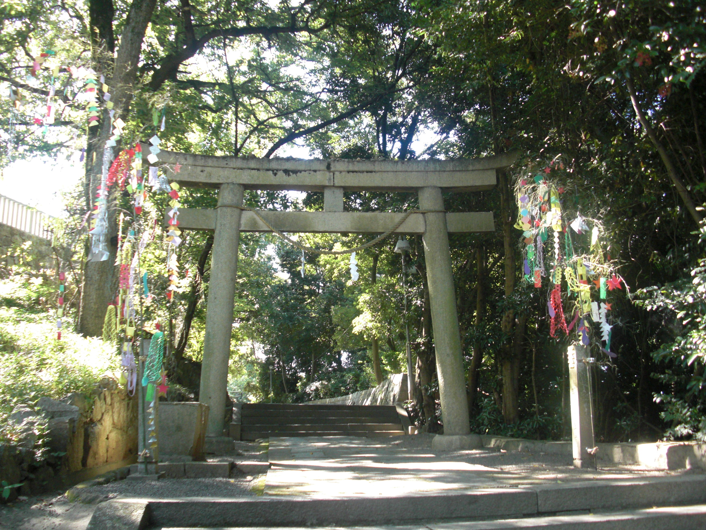 This is Achi Shrine, which is located in Kurashiki, Okayama, Japan.